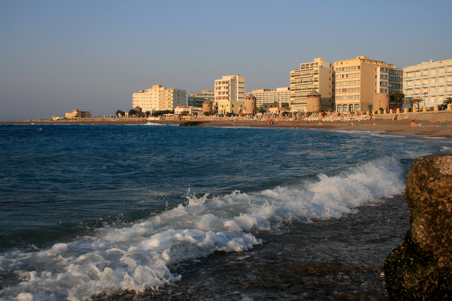 Beach of Rhodes town (on Greece island Rhodes) pláž města Rhodos na řeckém ostrově Rhodos photo August 2007 Author= Karelj